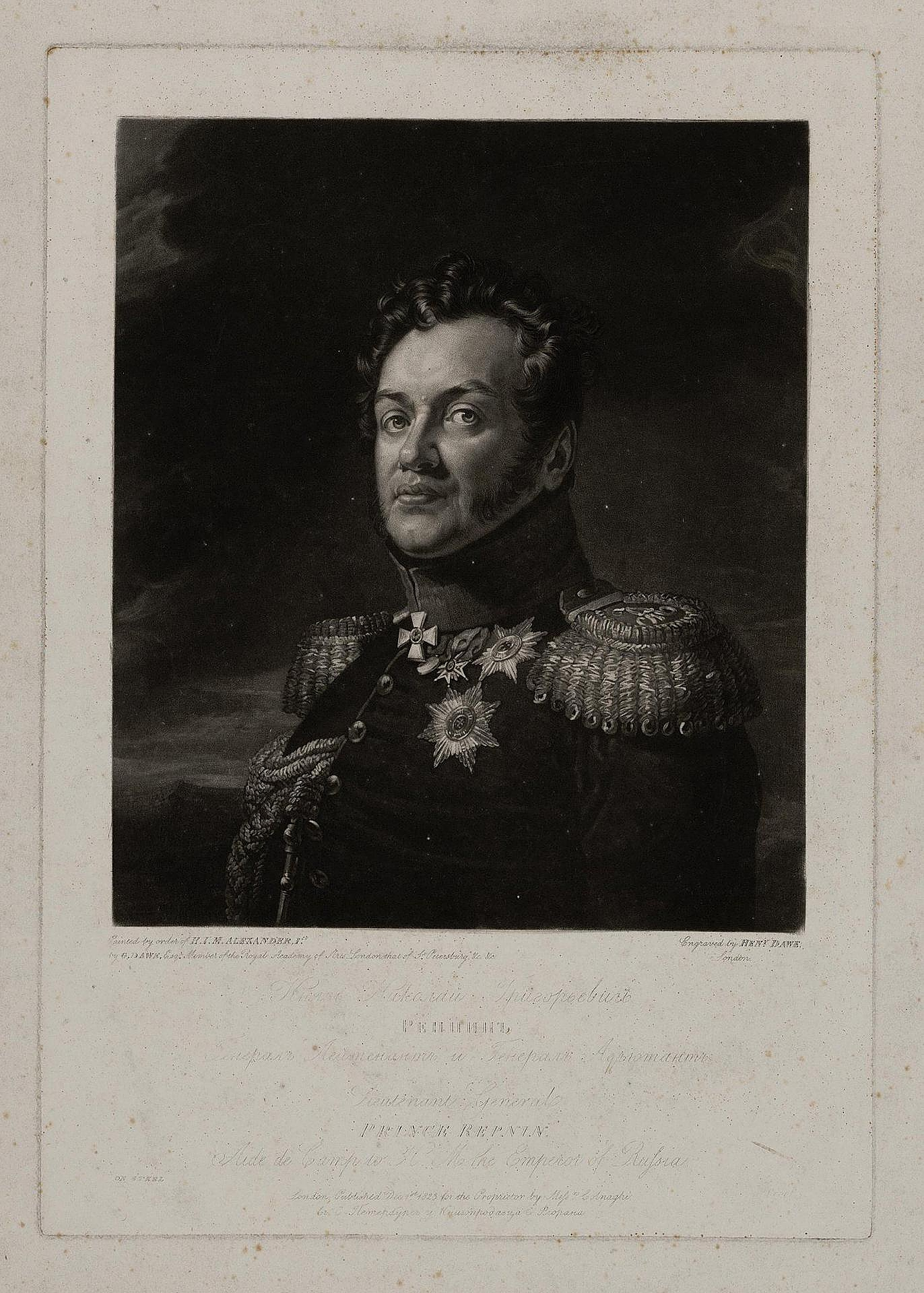 Portrait of General, Prince N. Repnin